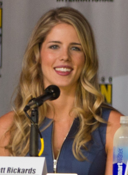 Emily Bett Rickards on the "TV Guide Magazine: Fan Favorites" panel at the 2013 Comic-Con.